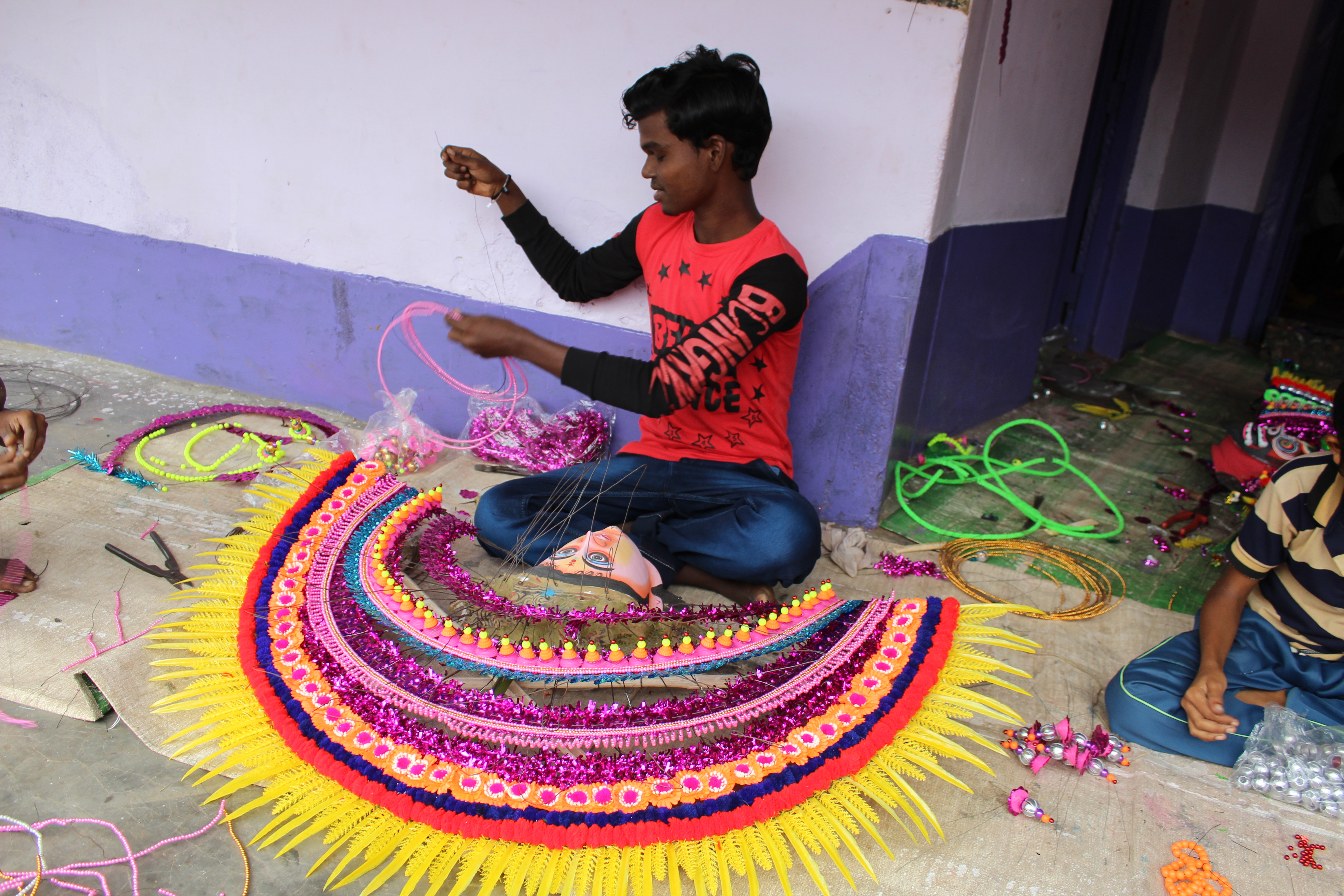 Chau dance is quite a popular dance form. In Purulia's Chorida village the mask of Chau dance are being made by the artisans.